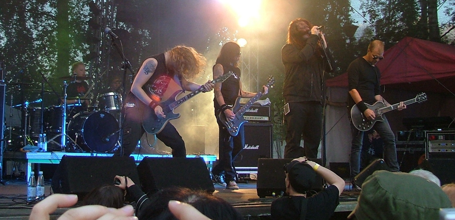 Swedish metal band Katatonia in Kuopio at Rockcock-musicfestival